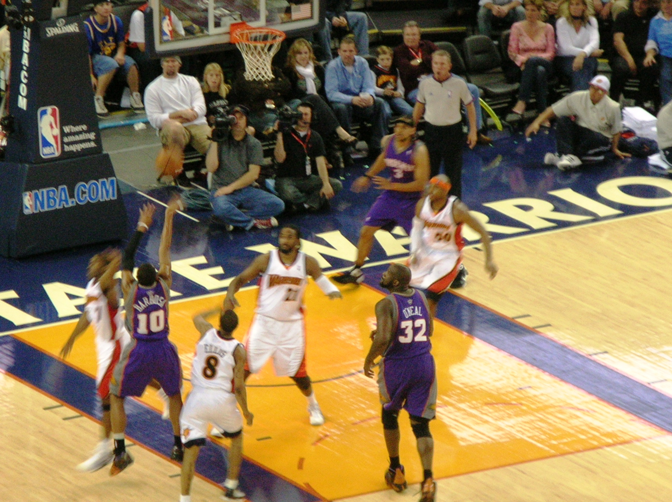 Phoenix Suns guard Leandro Barbosa takes a shot during a road game against the Golden State Warriors at Oracle Arena. The Suns won 154-130.